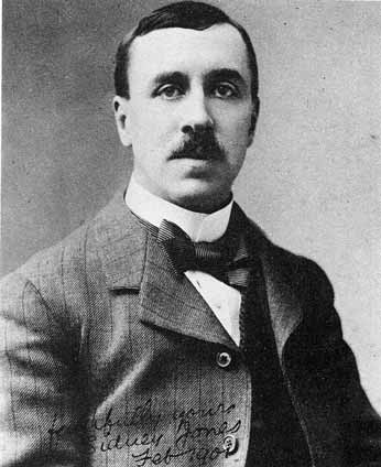 Sidney Jones, Feb. 1901